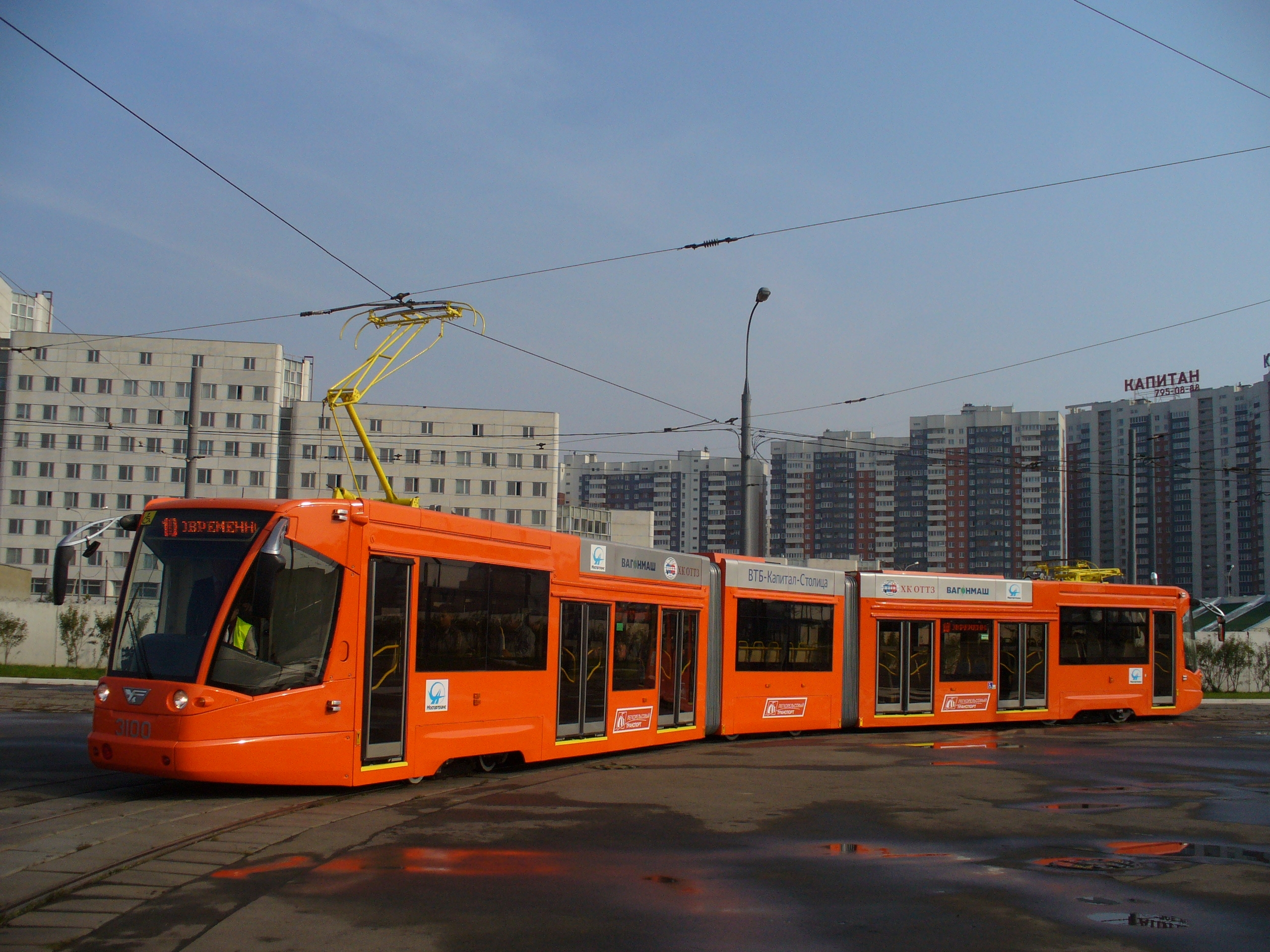 Tram KTM-30 in Moscow.